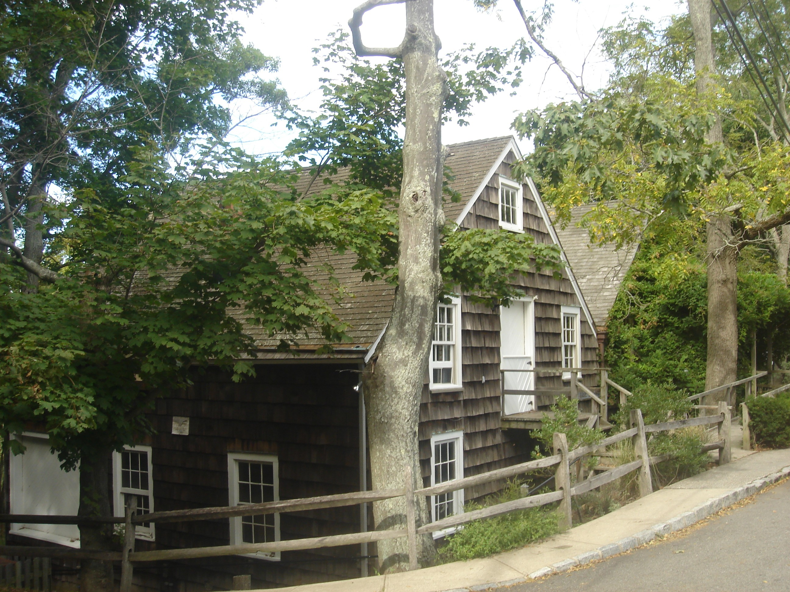 Historical grist mill (1751) in Stony Brook, Long Island.